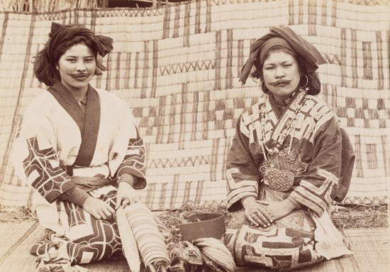 Gelatin silver print photograph of two ainu women in traditional costume, taken c. 1890s. Original photo owned by the Museum of Fine Arts, Houston: [1]